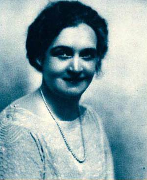 Publicity photo of Mary Carr from Stars of the Photoplay. Mary Carr is the famous screen mother, whose work is known to millions of screen fans. "Screen mother" is not just an empty title, as there are six "little Carrs," some of whom are not so little either. The peak of Mrs. Carr's fine career was "Over the Hill." Four of her children appeared in this picture. Some other well-known pictures in which she appeared are "Thunderclap," "Silver Wings," "The Custard Cup" and "You are Guilty." She was born in Germantown, Pennsylvania. She is five feet, two inches tall, weighs 120 pounds, has blonde hair with greyish streaks, and blue eyes.